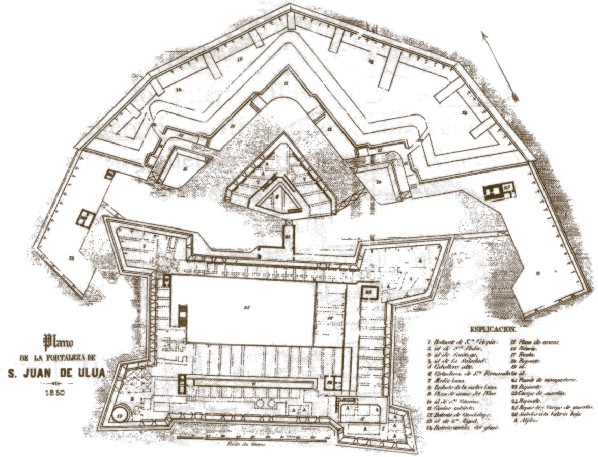 An 1850 drawing of the Fortress of San Juan de Ulúa.